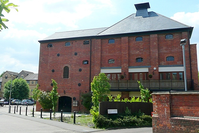 Simonds brewery malthouse, Reading, Berkshire. When the brewery closed in about 1980, this building remained empty and derelict for some time. Now it contains luxury flats. In the foreground is the private entrance to Avocet Court, another development on the brewery site.